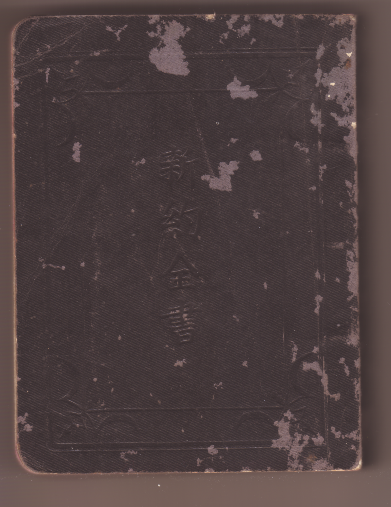 The New Testament - Japanese Version (Meiji-motoyaku), American Bible Society Japan Agency, 1904